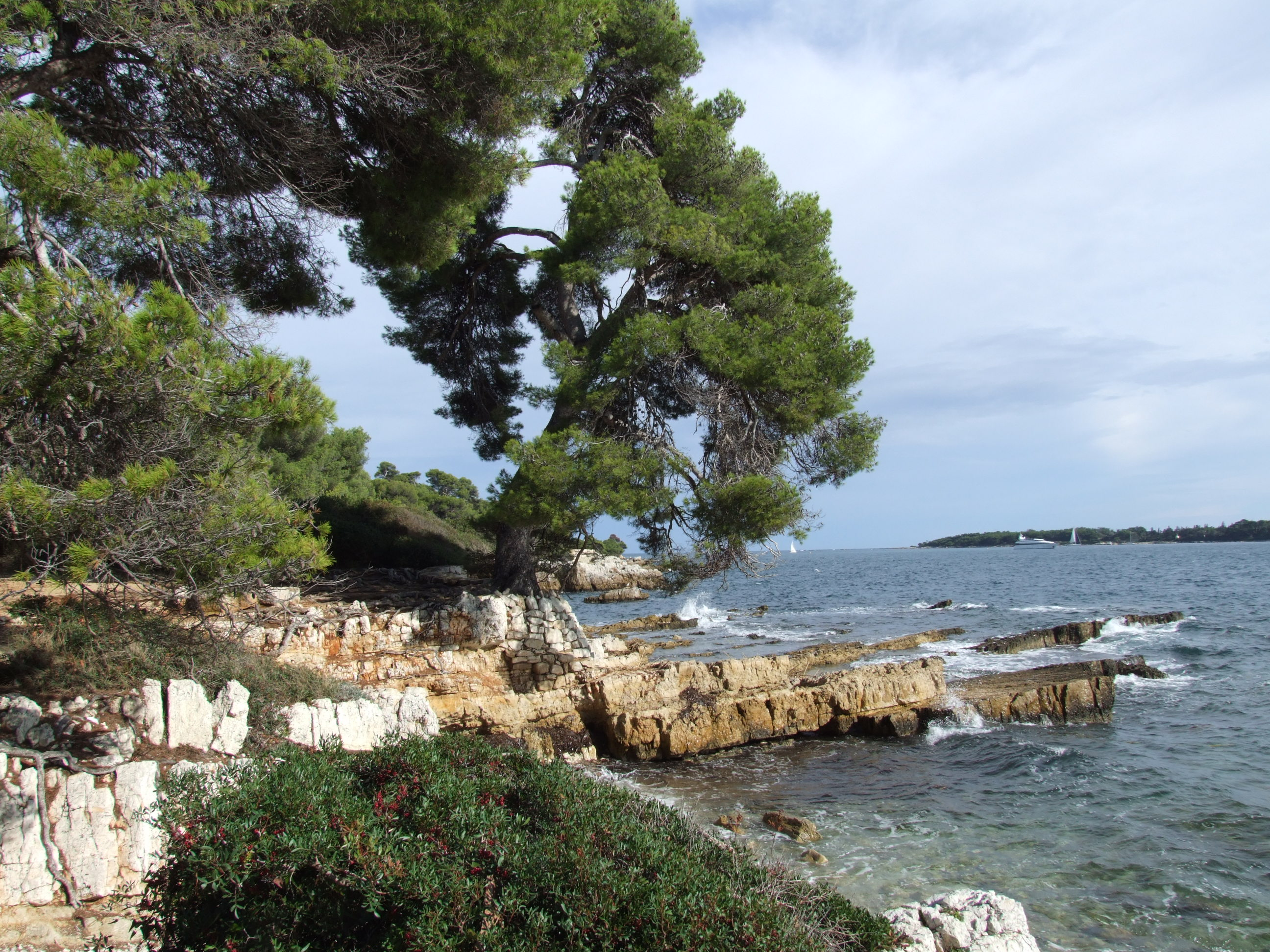 Lérins Islands, FRANCE